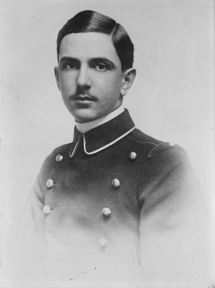 Umberto, Crown Prince of Italy